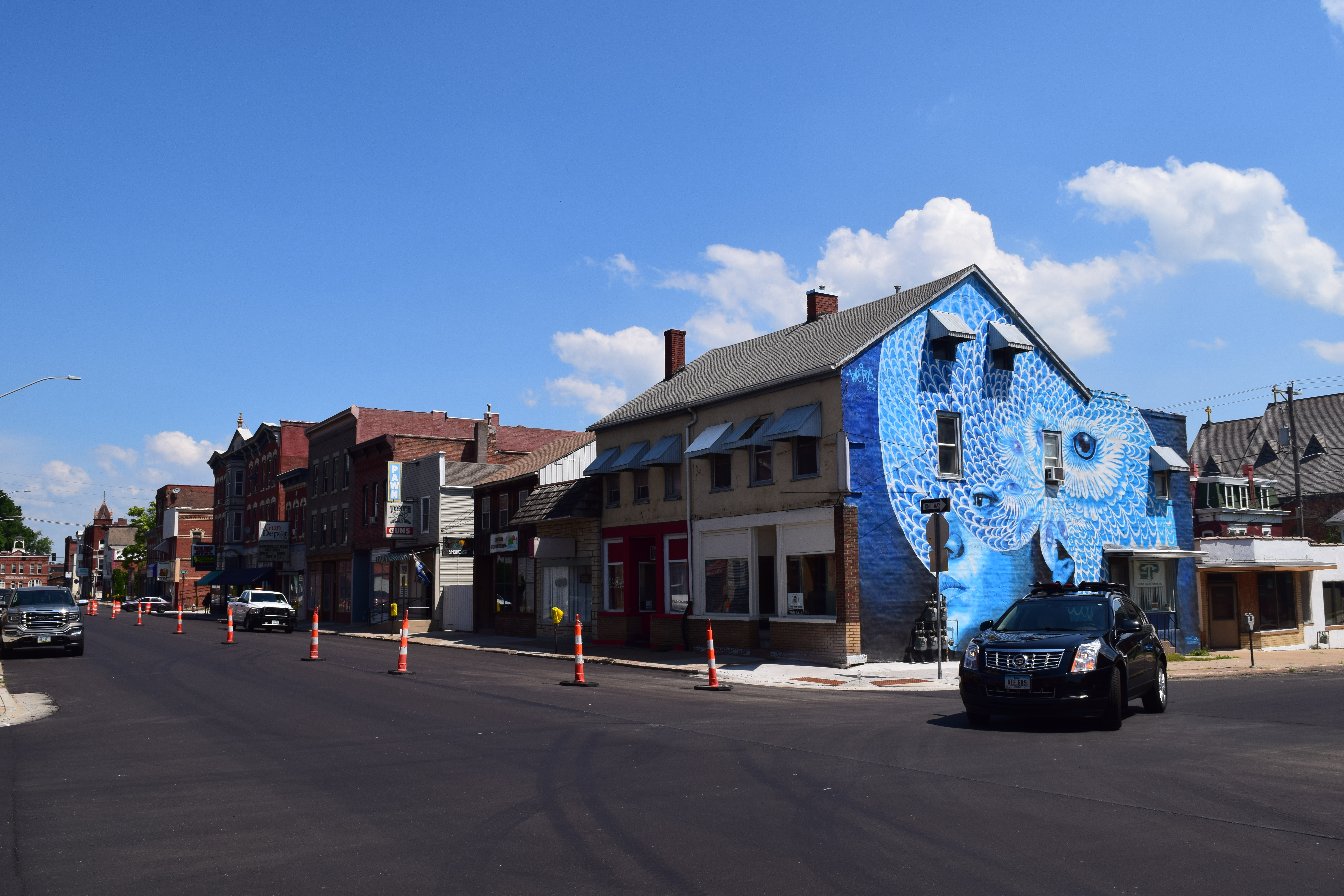 Buildings on the east side of the 1500 block of Central Avenue in Dubuque, Iowa. The buildings are part of the Upper Central Avenue Commercial Historic District.